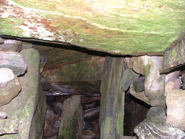 Inside Barpa Langass Barpa Langass /Barpa Langais